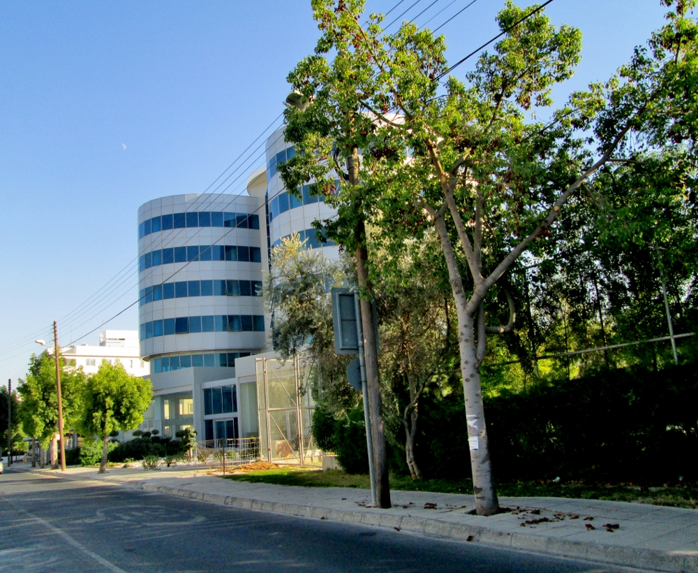 Modern Kaimakli buildings Nicosia Cyprus